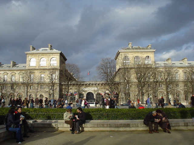 10 February 2007 A view across the square parvis Notre-Dame in front of the Notre Dame, looking towards north and the Hôtel-Dieu hosptal